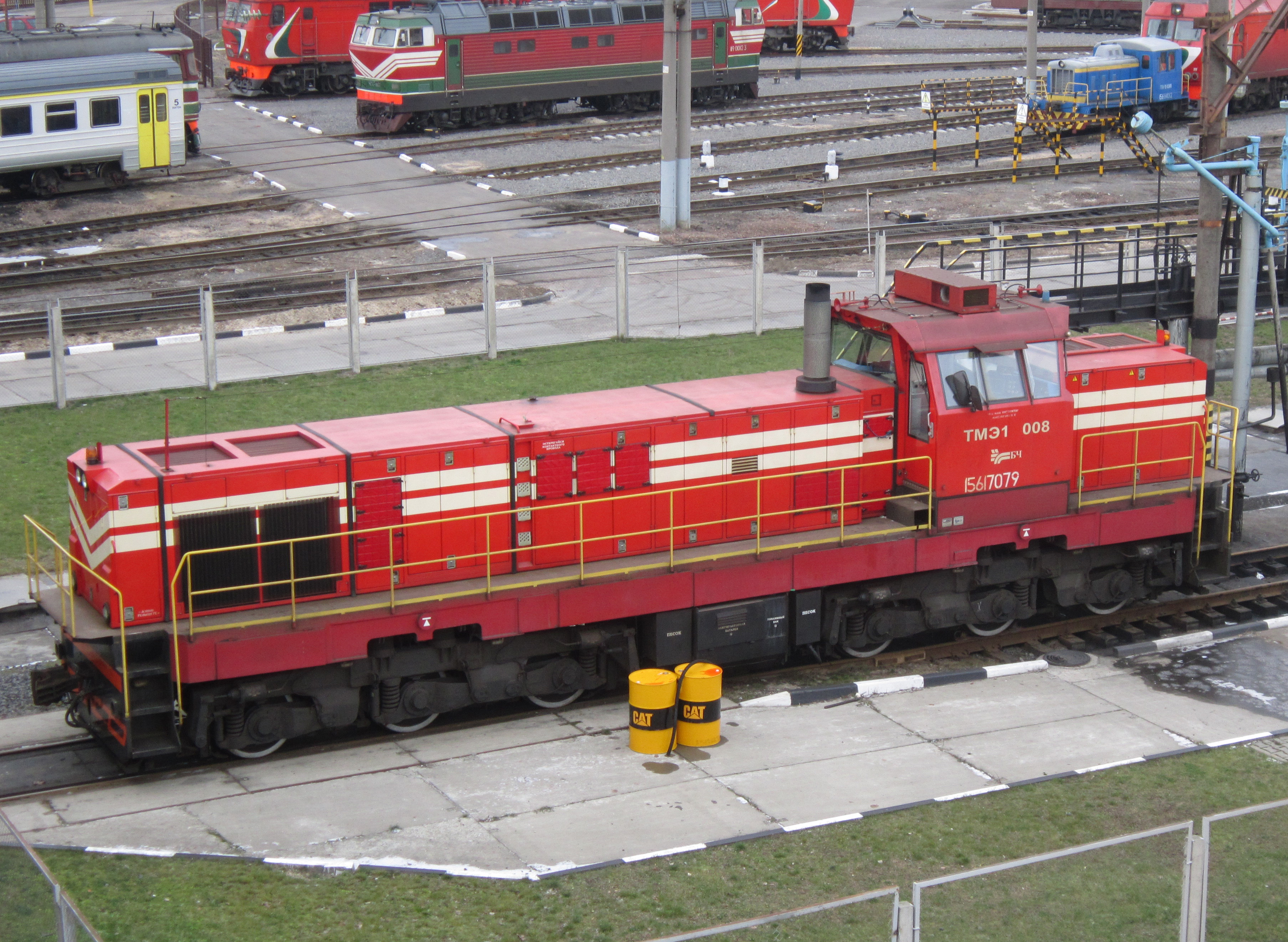 Shunting locomotive TME1 at Minsk locomotive depot